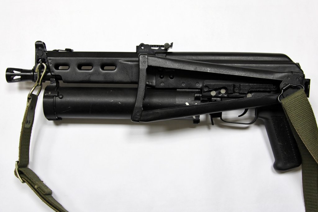 9mm submachine gun PP-19 Bizon left side view with folded buttstock.